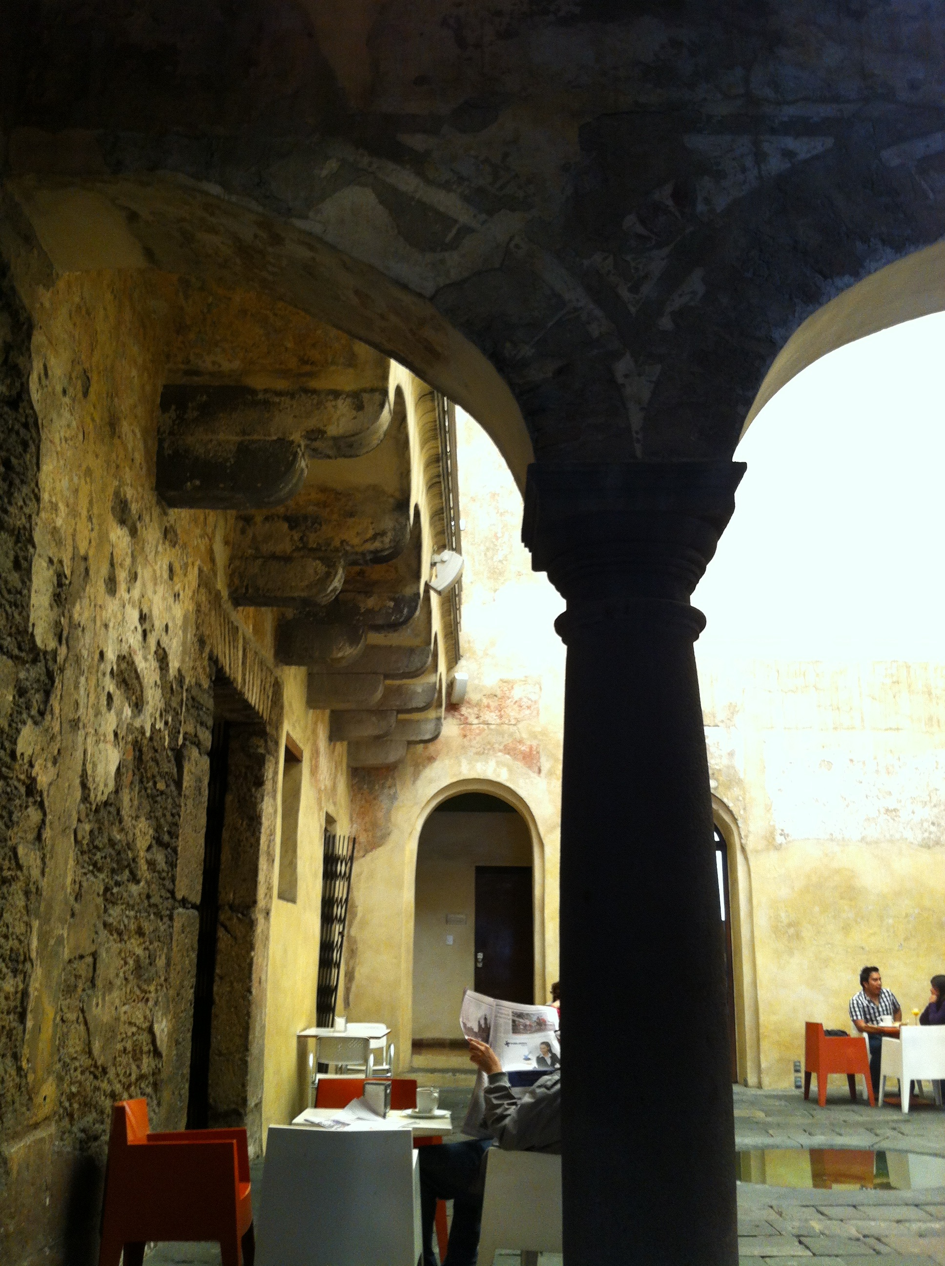 Pared